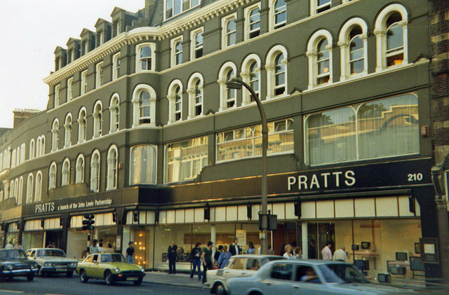 Streatham Original description: Pratts Department Store. Summer 1978 This was taken on a Sunday afternoon in the summer of 1978. The closure of Pratts in July 1990 was a blow to the High Road from which it never recovered.